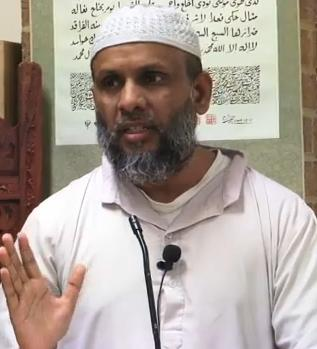 A picture of scholar Dr Akram Nadwi professor at Oxford University.